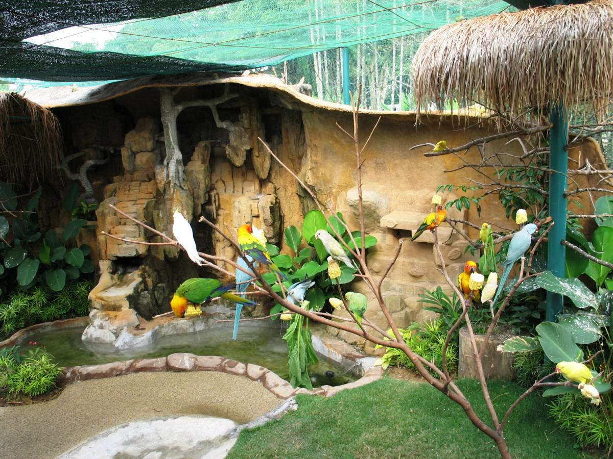 Part of parrots world in KL bird park